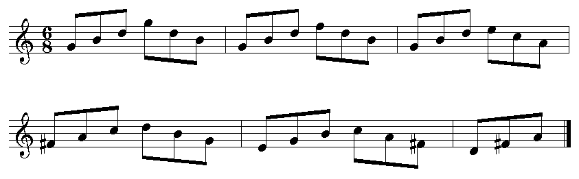 An arpeggio passage from Bach's Jesu